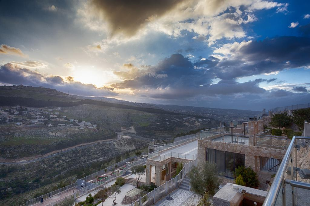 Jalaad Cultural Center